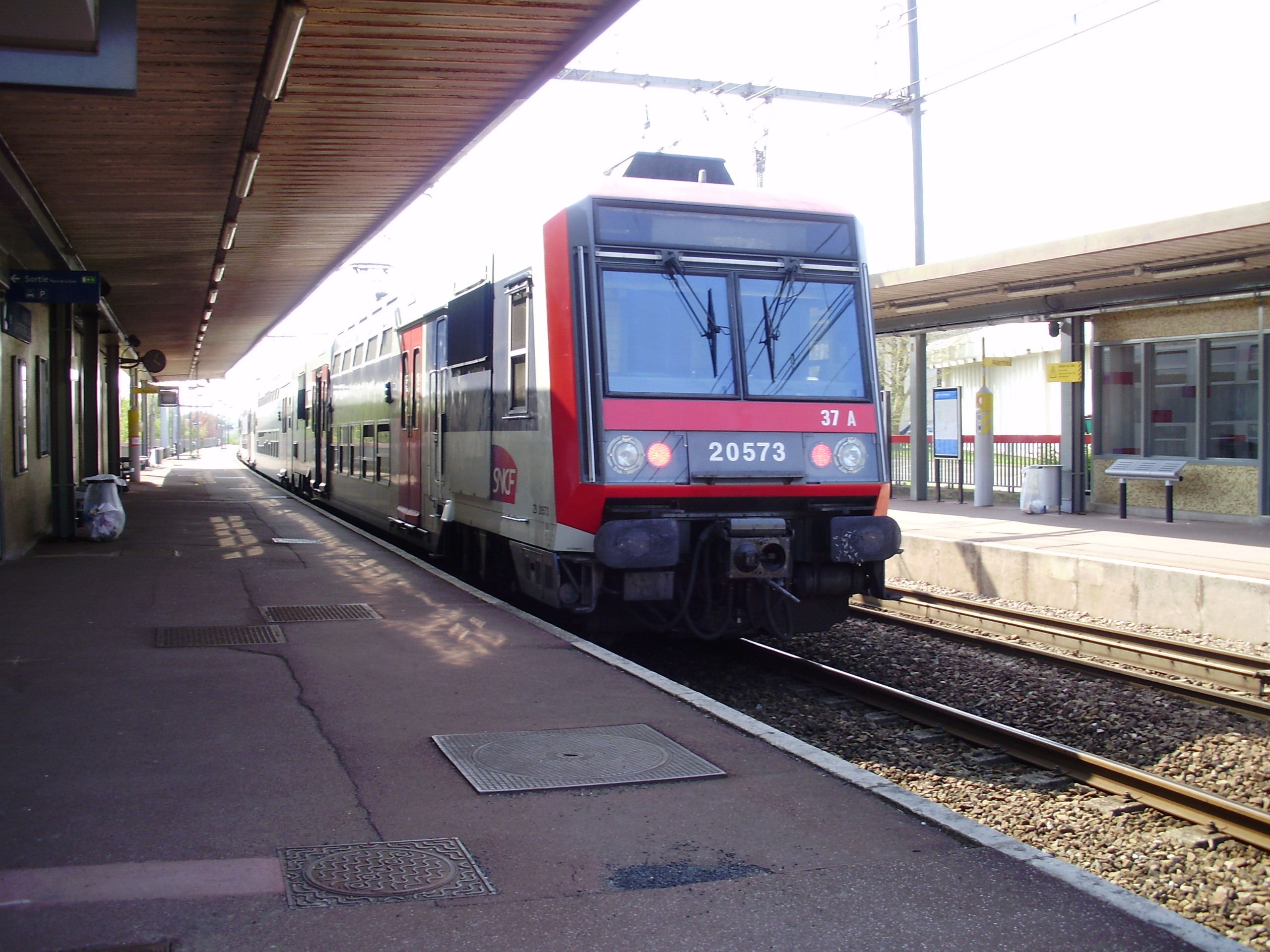 Electric multiple unit of SNCF Class Z 20500 at Rungis - La Fraternelle station (going towards Massy - Palaiseau), in Rungis, Val-de-Marne, France